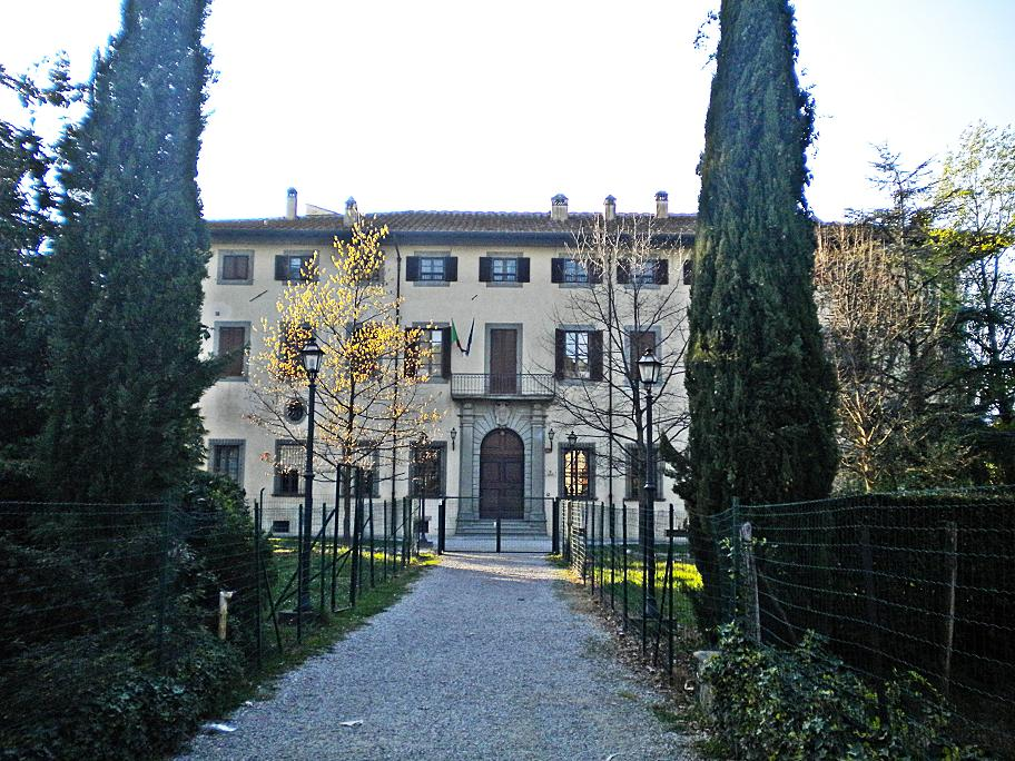 front side